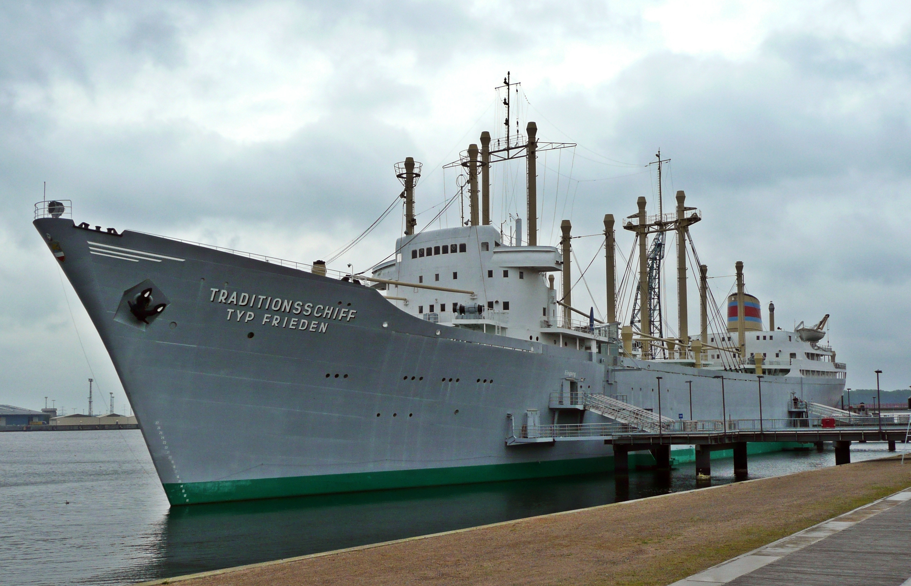 This image shows the cargo ship "Dresden" (built 1956/57) in Rostock. The ship is used as a museum ship since 1970.